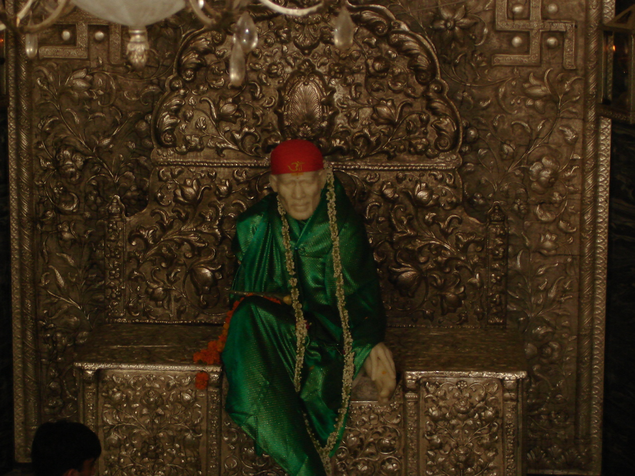 Picture of Shirdi Sai Baba who was a saint.